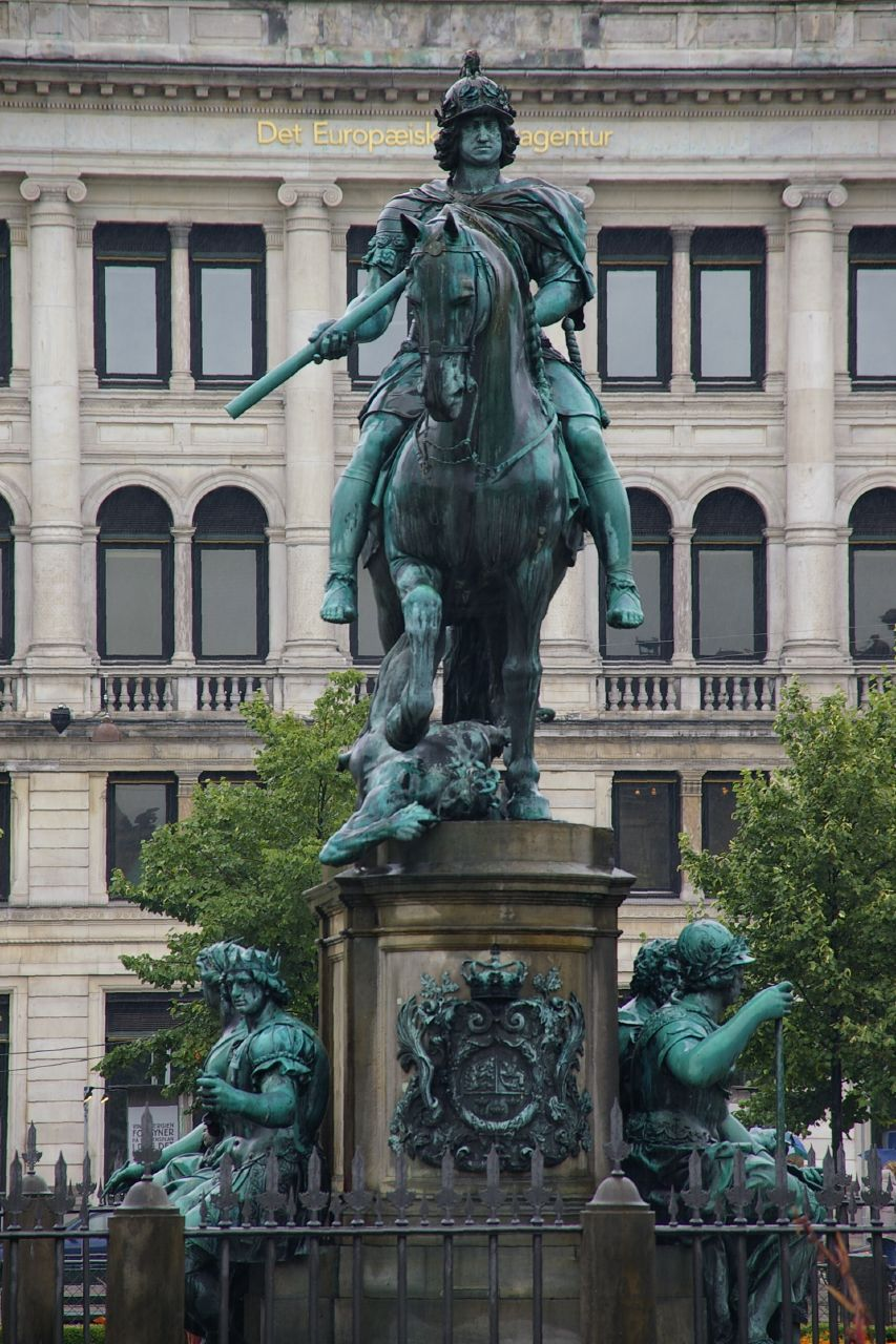 The equestrian of Kingt Christian V on Kongens Nytorv in Copenhagen, Denmark